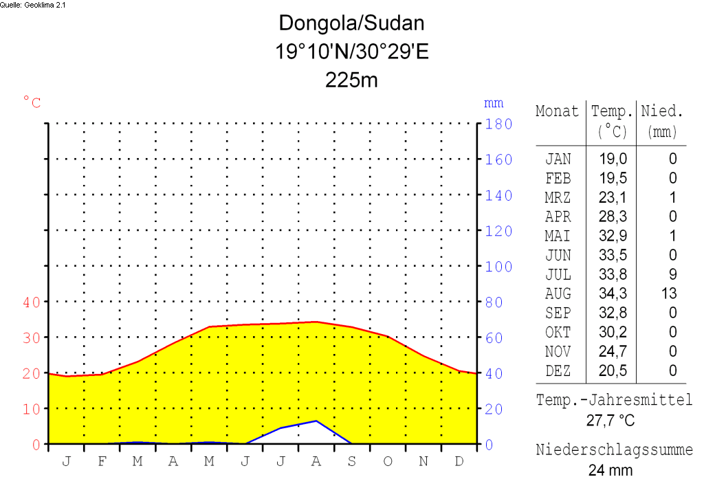 climate chart in the format by Walter and Lieth, metric, °Celsisus and millimeters, made with Geoklima 2.1